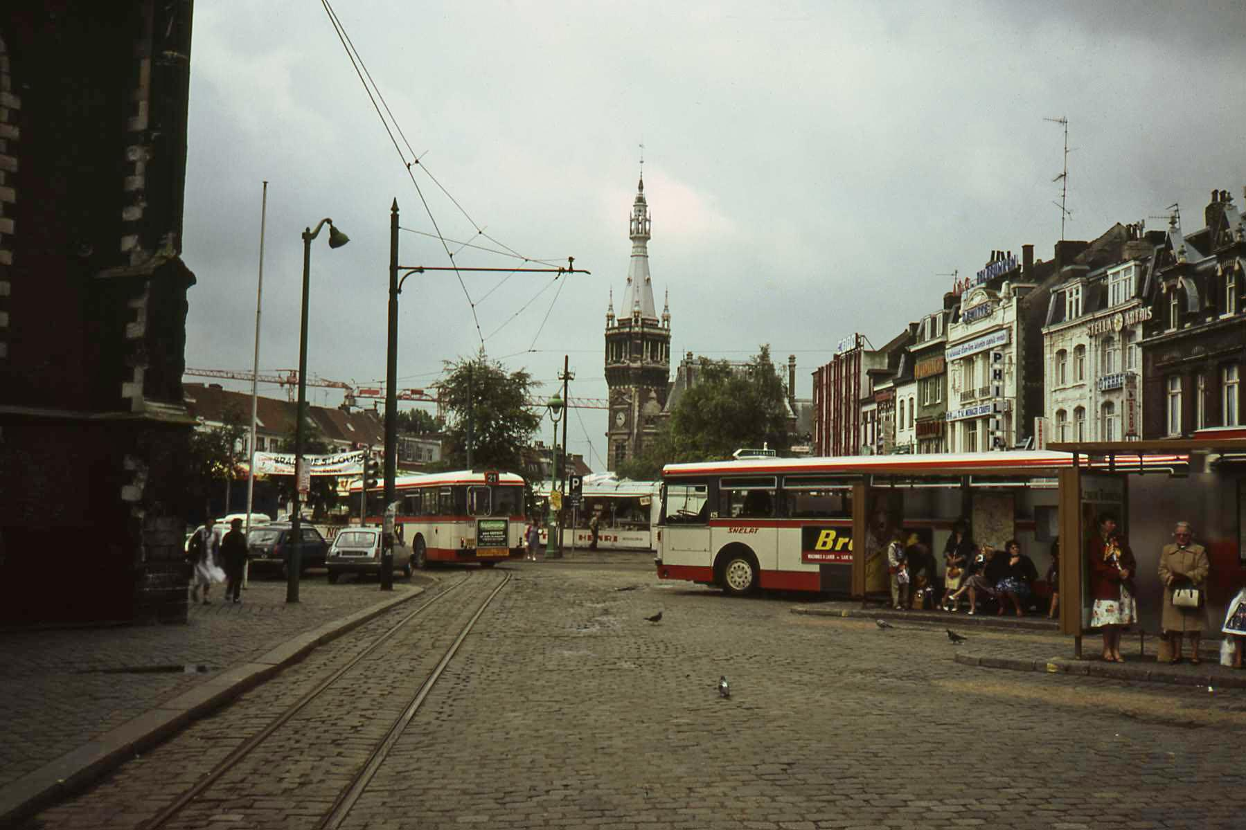 Old tram loop around the church in Tourcoing 1981. Shortly there after the trams no longer used the loop.